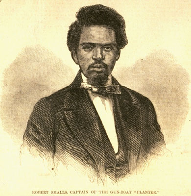 Picture of Robert Smalls